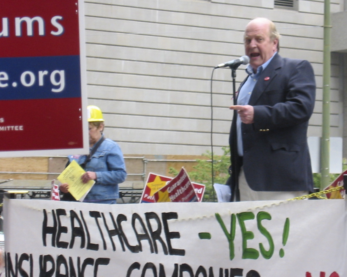 Rally for single-payer healthcare outside of Blue Shield office, Beale St., San Francisco on 8/8/2007